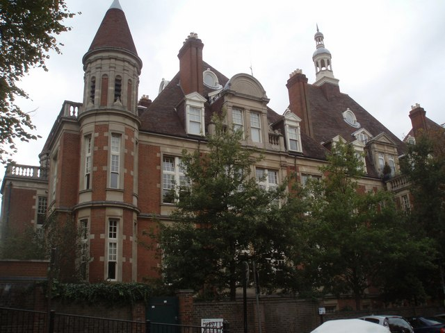 Mount Vernon Originally the Hospital for Consumption & Diseases of the Chest. Now very, very expensive flats.